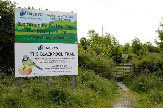 The Blackpool Trail, Noppies The newly created permitted trail is roughly a mile and a half long and gives spectacular views of Blackpool Pit. In a short distance we were able to find intense blue butterflies and see strange goat-like Soay sheep grazing the spoil tips. Apparently the latter have been here for 30 years but are now threatened by plans to build an eco-town .